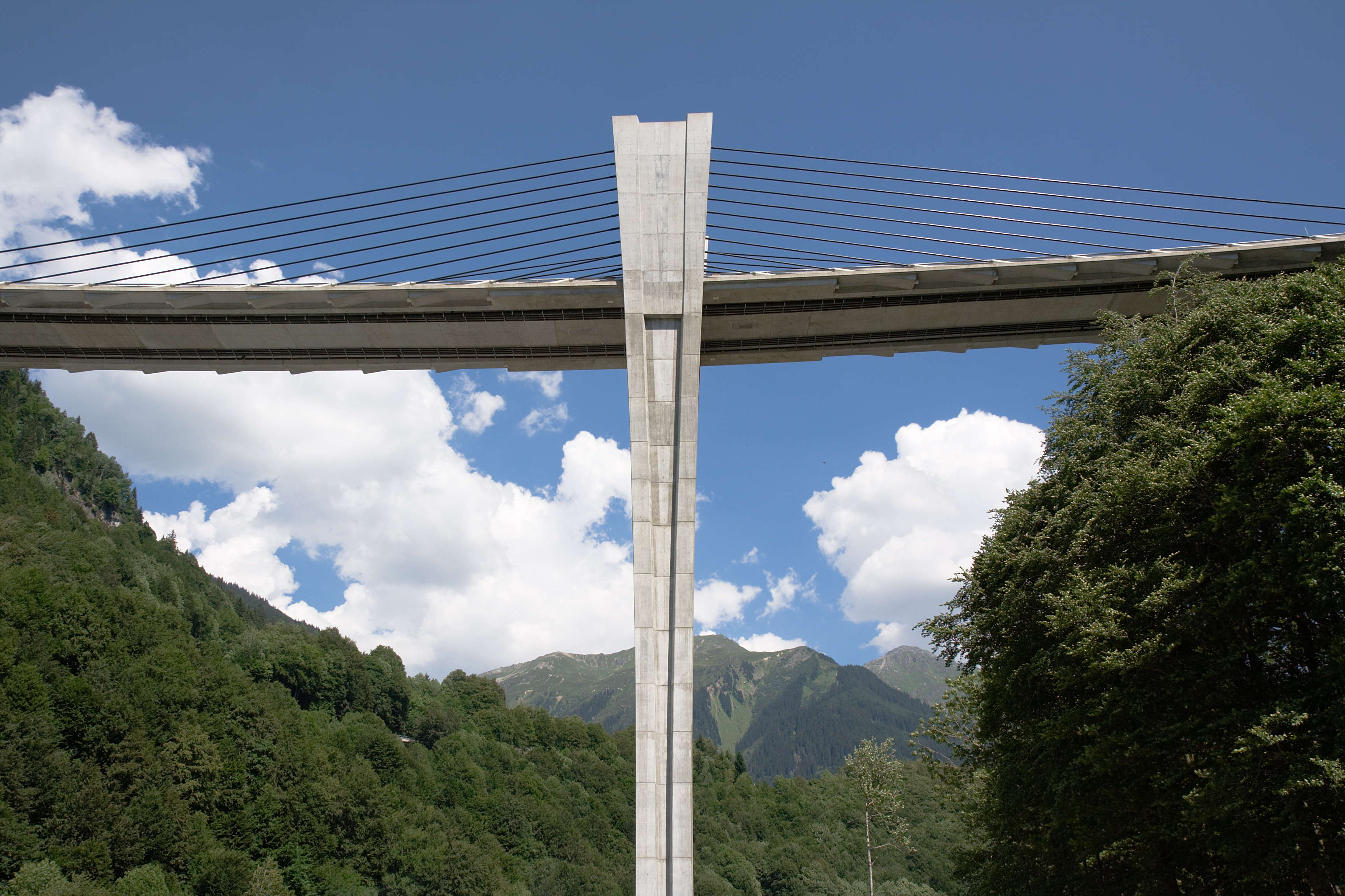 One of the pillars of the Sunniberg-Bridge at Klosters-Serneus in Switzerland